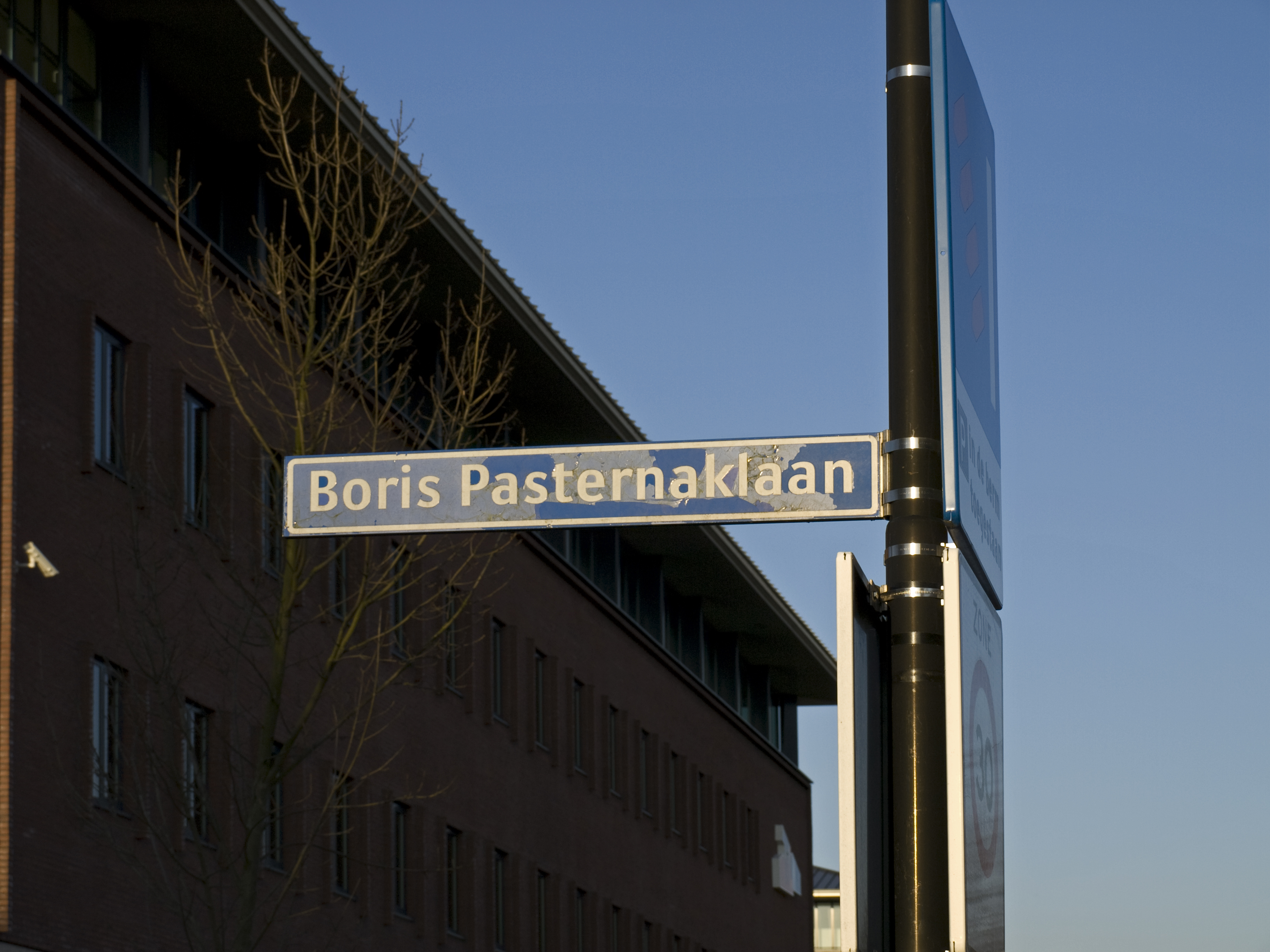 Boris Pasternaklaan, Zoetermeer, the Netherlands